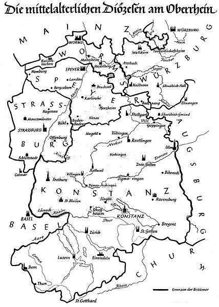 Map of the medieval dioceses of Konstanz, Speyer, Strasbourg, Worms, and partly Würzburg, Mainz, Augsburg, Basel, Chur.